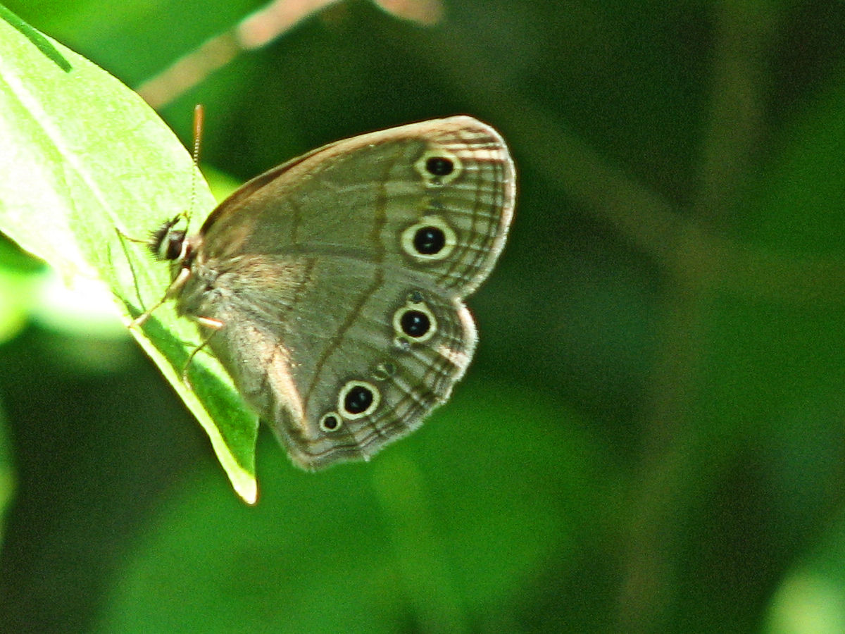 Little Wood-Satyr (Megisto cymela cymela) taken near Rideau River, Ottawa, Ontario